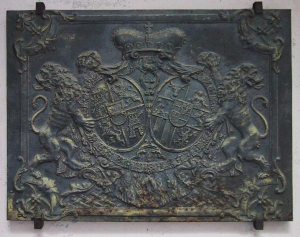 Thurn und Taxis Coat of Arms, Palais Thurn und Taxis, Frankfurt am Main